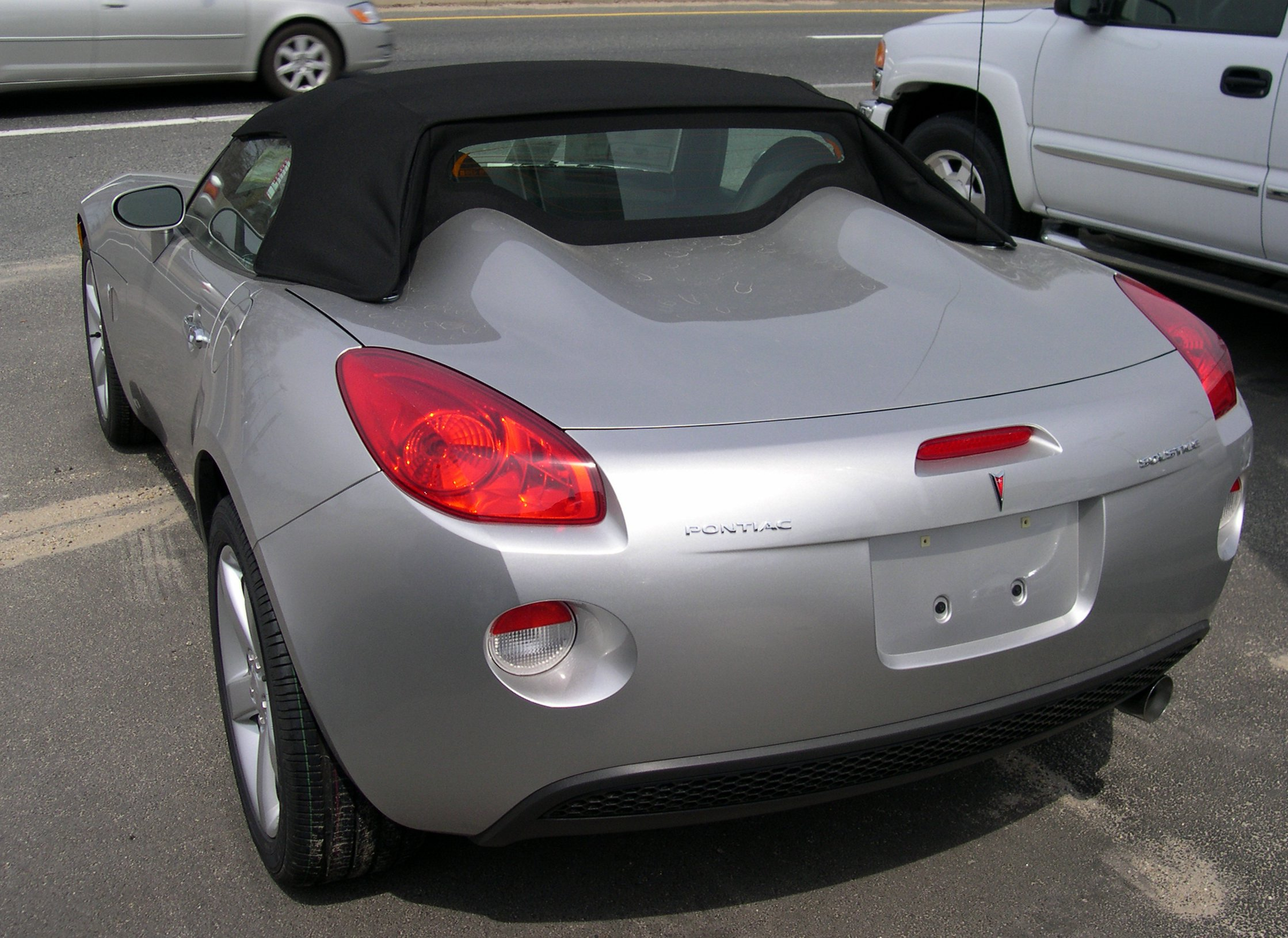 2006 Pontiac Solstice Photo by Stephen Foskett